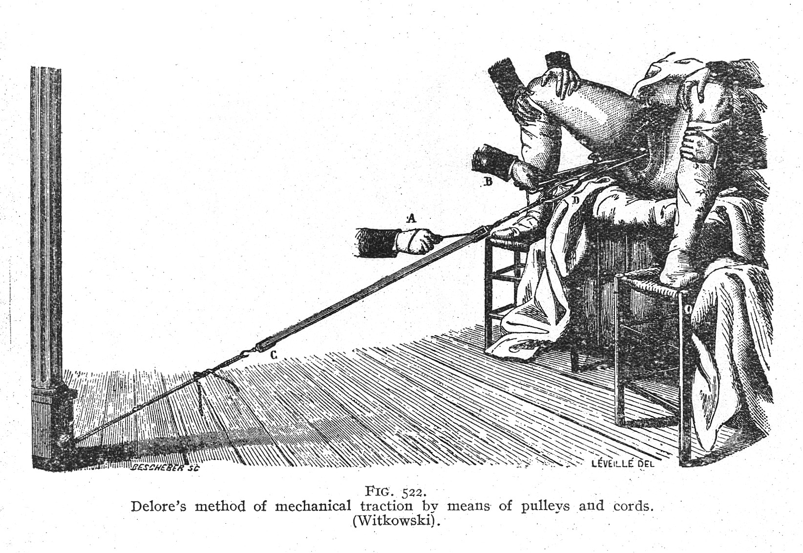 Delore's method of mechanical traction with pullies and cord Wellcome Images Keywords: Kedarnath Das